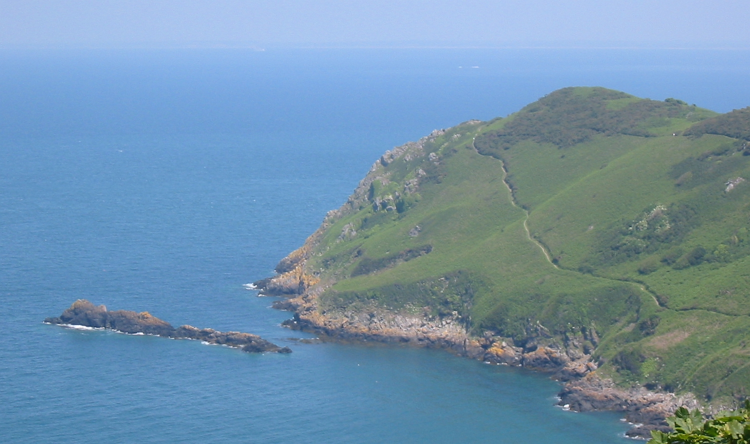 Sights of the Northern Parishes of Jersey Nrf: Eune touônnée au mais d'Mai siez les Nordgiens en Jèrri